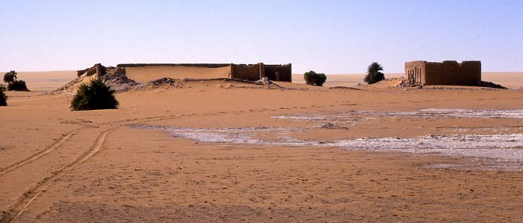 Former French fort in the Agadem basin, eastern Niger, left to salt and silting.